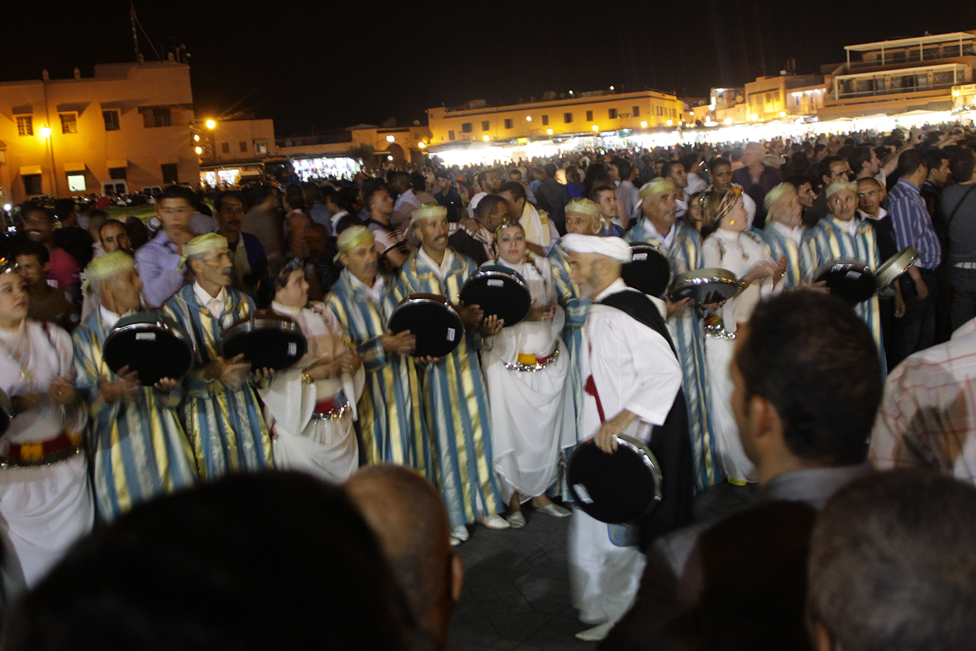 dance of chleuhs marrakesh